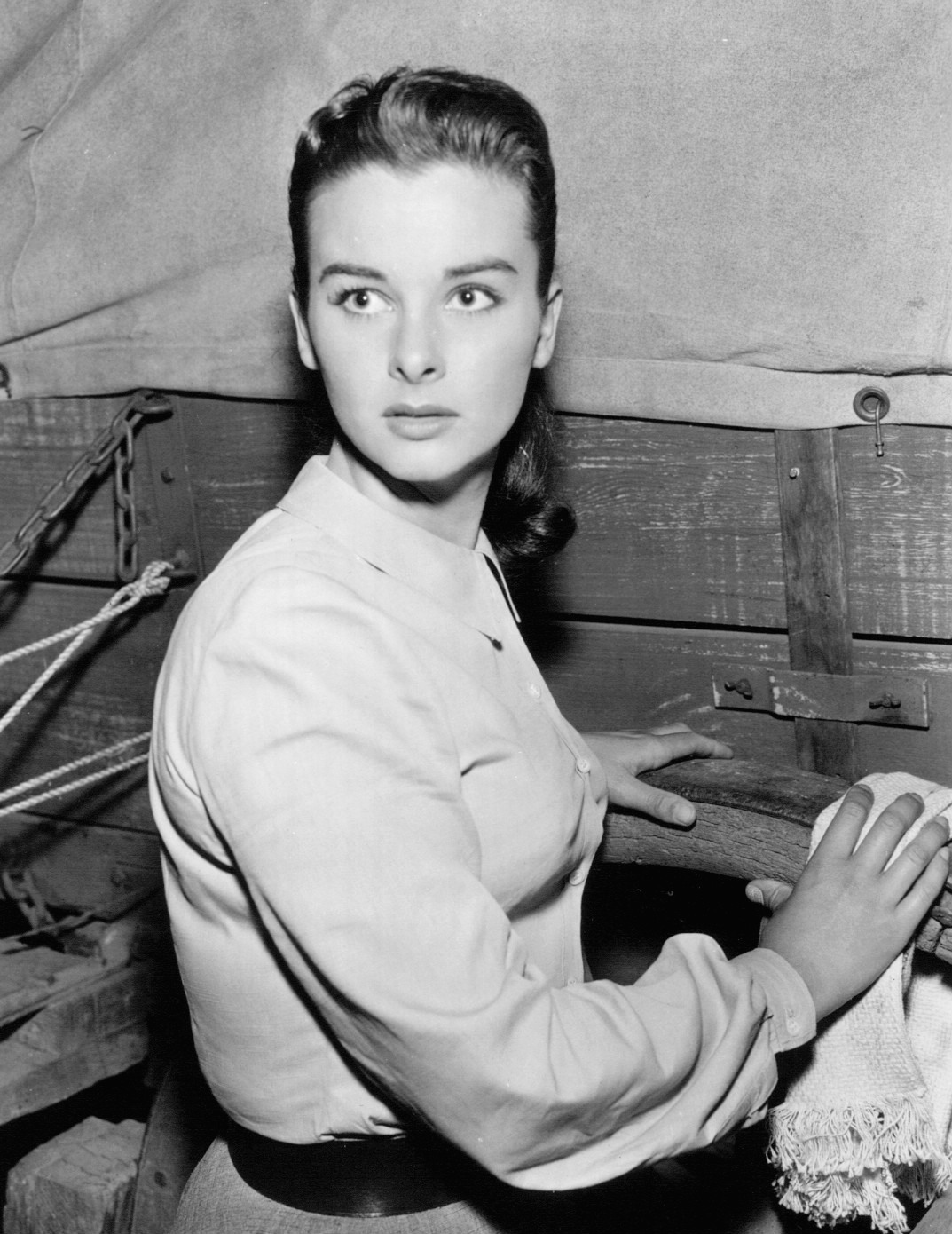 Photo of actress Audrey Dalton as a guest star on the television series Wagon Train.